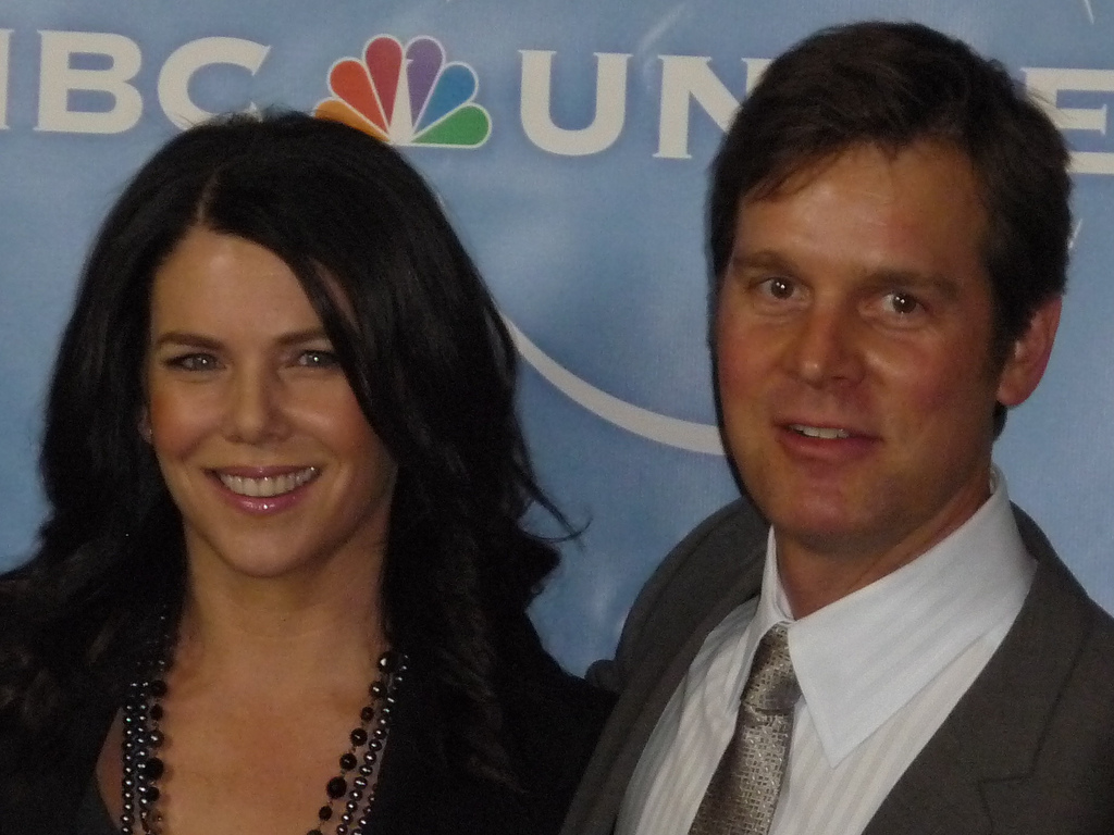 Lauren Graham and Peter Krause on February 5, 2008.